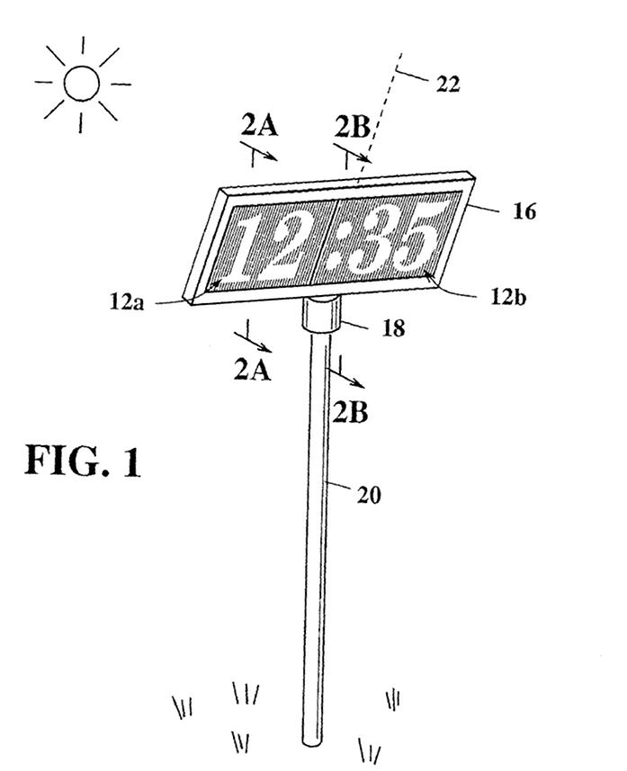 This is an illustration of a digital sundial from U.S. patent 5,590,093